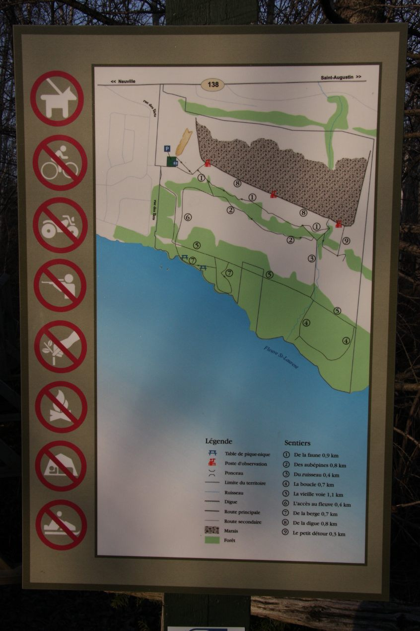 Map of Léon-Provancher marsh, Quebec, Canada